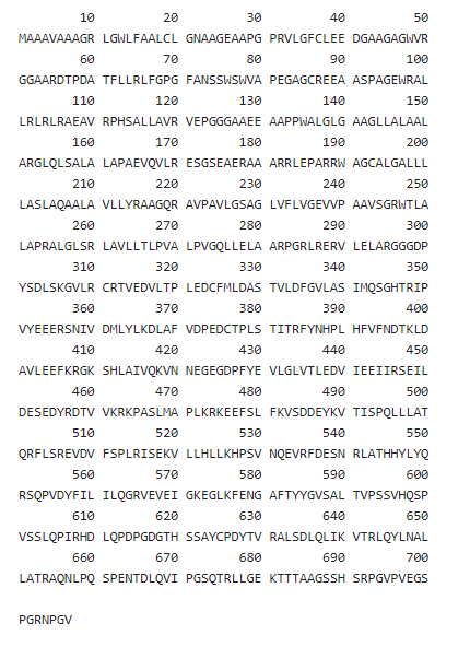 Aminoacid sequence of metal transporter cnnm3